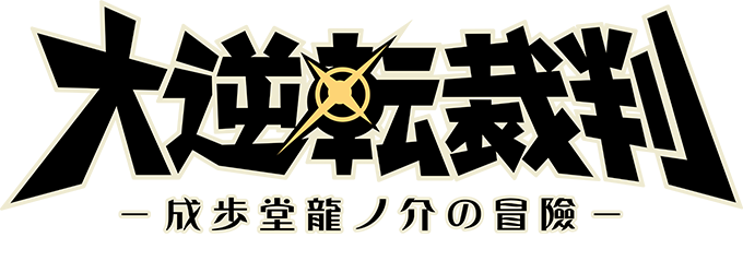 Dai Gyakuten Saiban's logotype